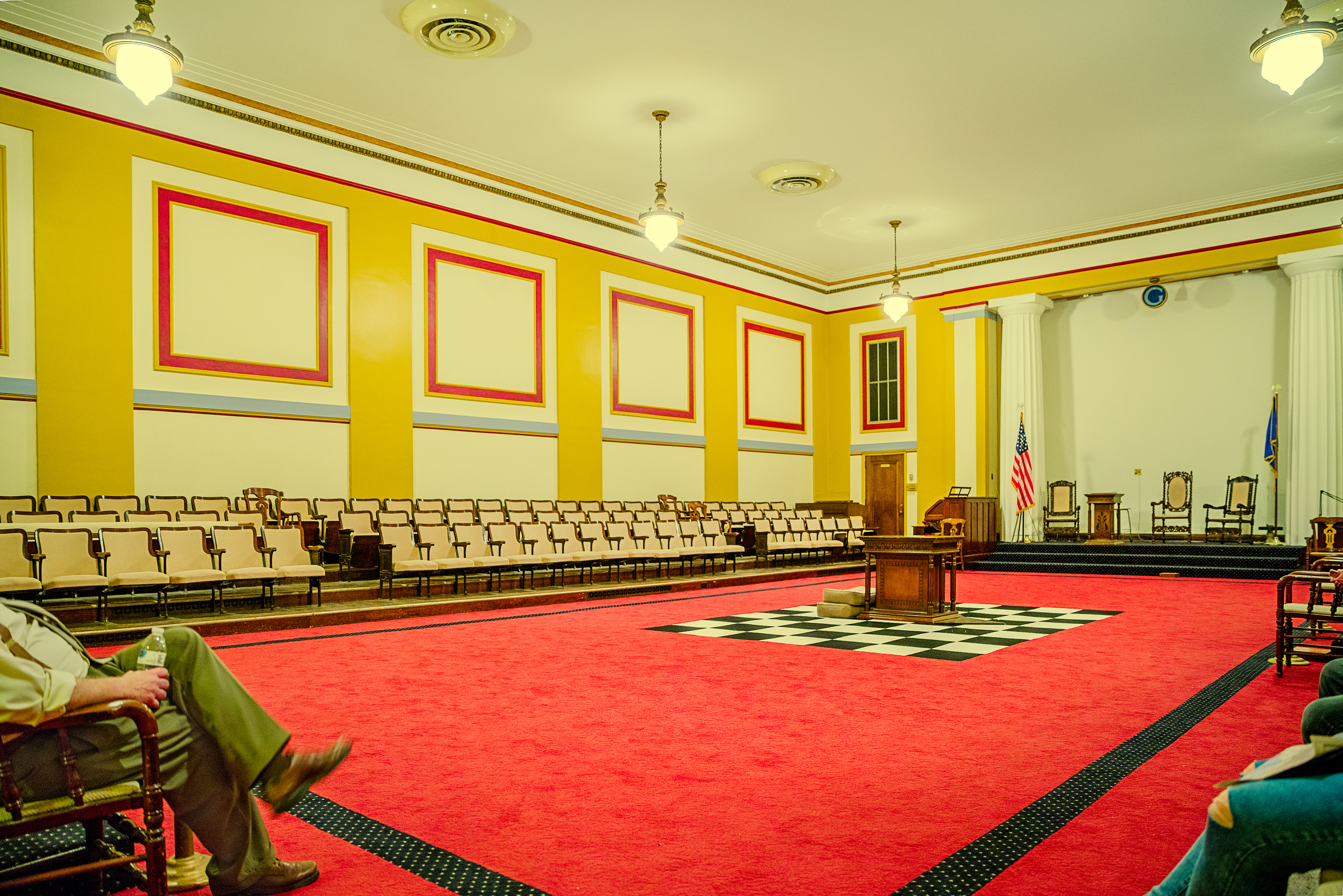 Madison Masonic Center / Madison Masonic Temple Designed by Madison architects James R. and Edward J. Law in 1915 and redesigned after World War I in 1922, the temple was built during 1923 to 1925. It was listed on the National Register of Historic Places in 1990 under Madison Masonic Temple, National Register Information System ID: 90001456.